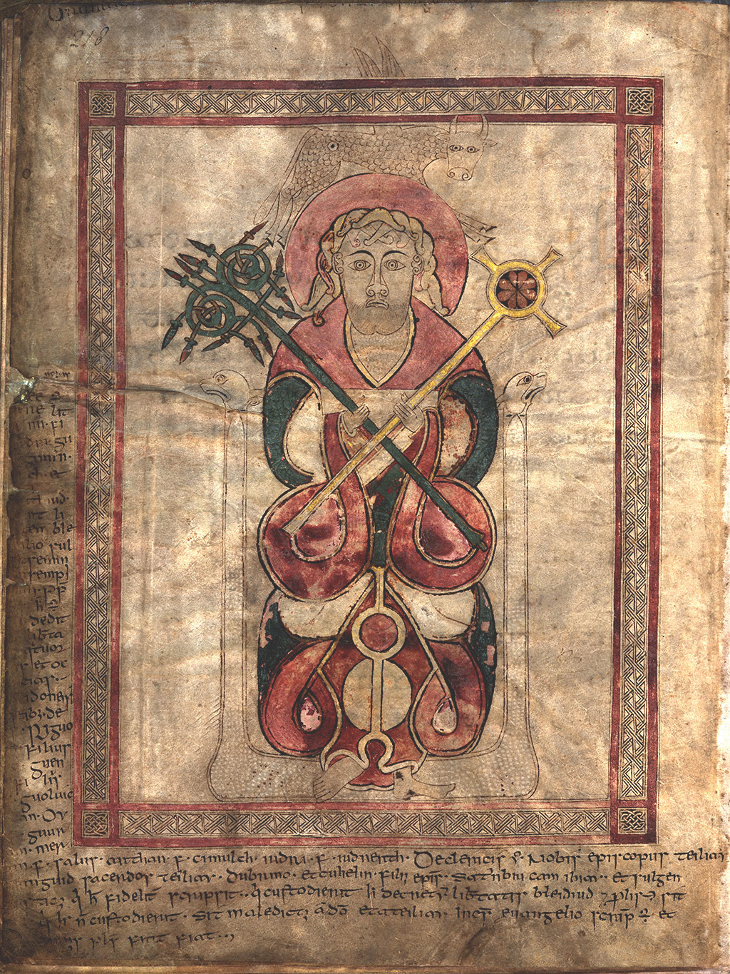 Portrait of St Luke (page 218). One of two surviving portrait pages in the St Chad Gospels (circa 730). For more information, see Manuscripts of Lichfield Cathedral: This portrait may also represent the High King of Ireland Flaithbertach mac Loingsig, contemporary king (r.728-734,d.765)